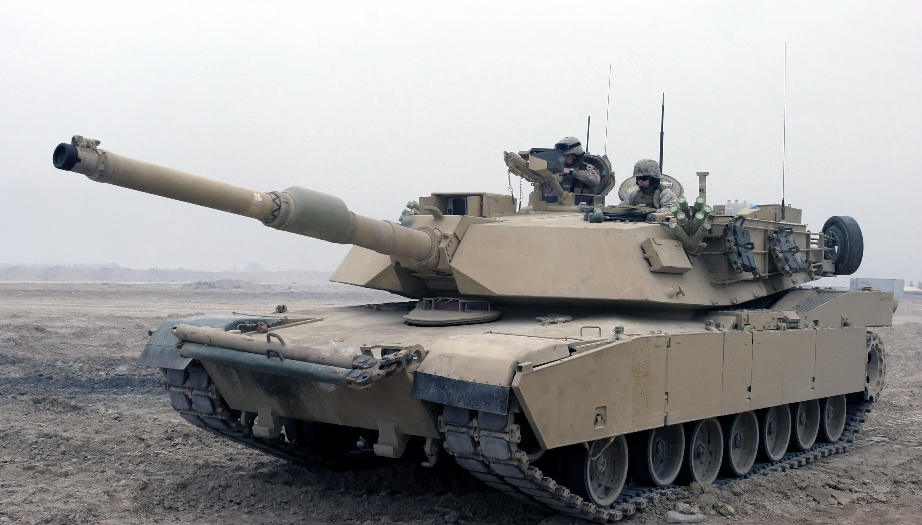 U.S. Marines perform premission checks on an M1A1 Abrams Tank in Camp Fallujah, Iraq, January 21, 2007.